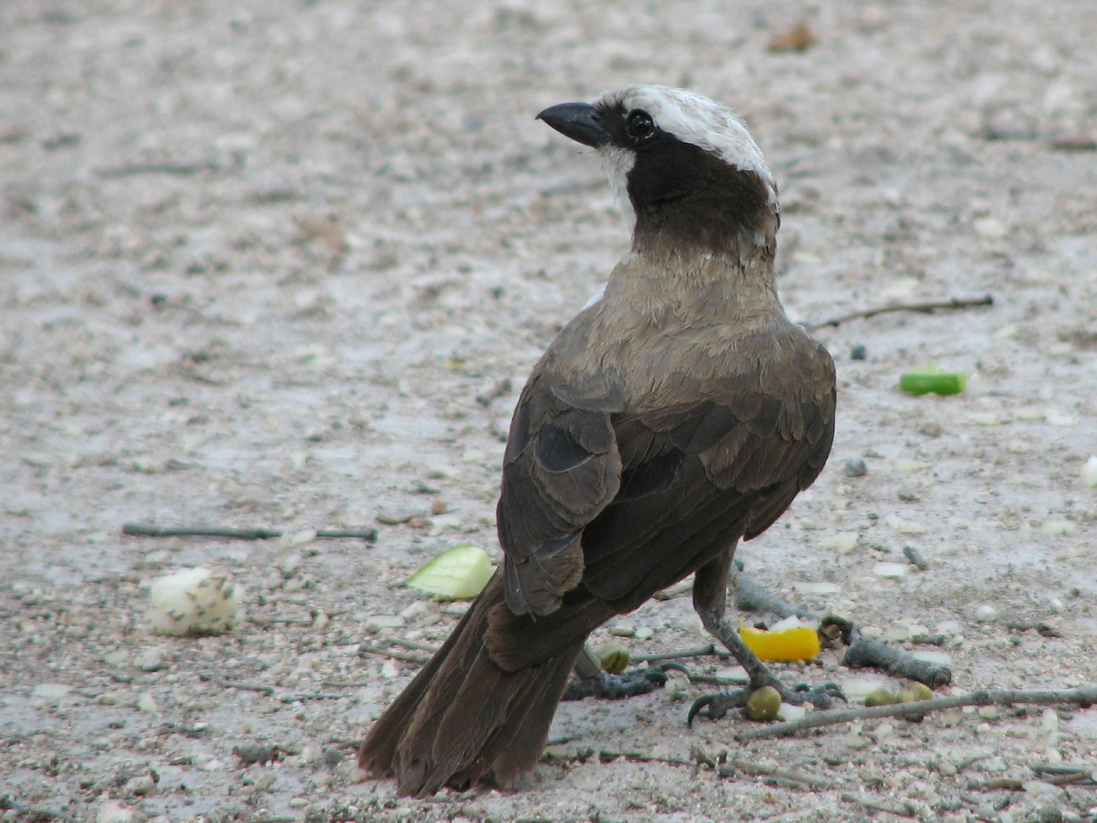 Southern White-crowned Shrike (Eurocephalus anguitimens), Namibia